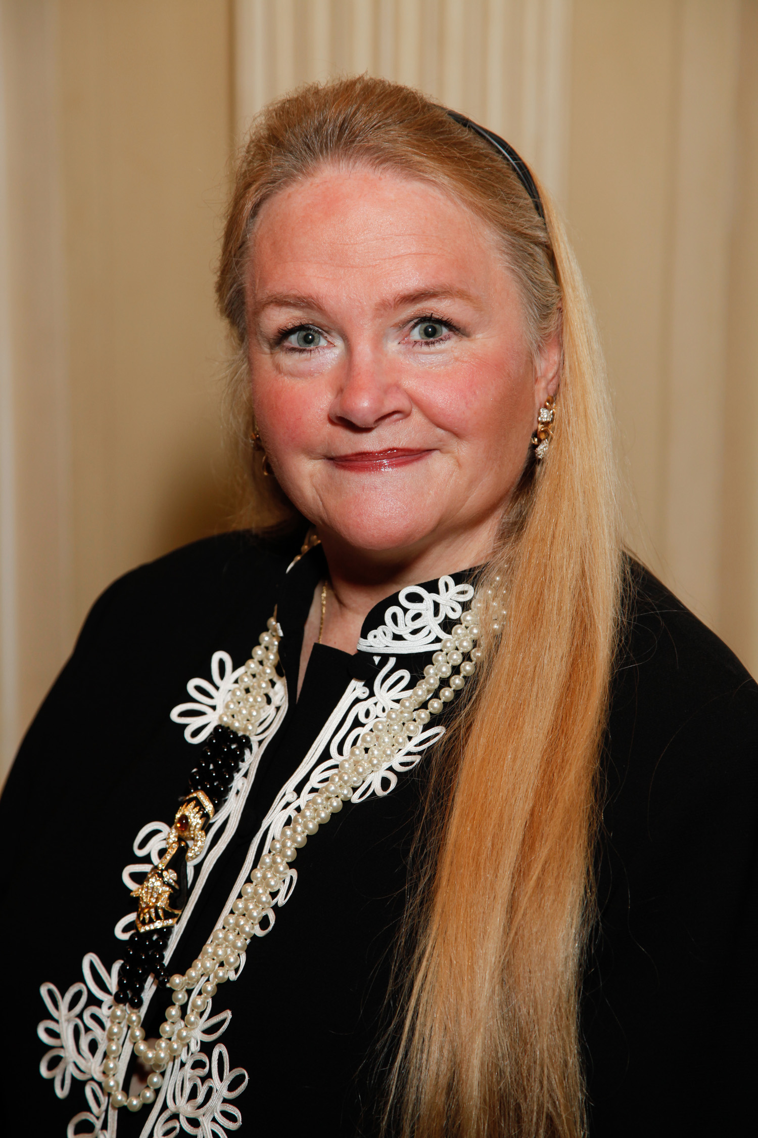 at Women’s eNews’ 21 Leaders for the 21st Century for 2012. Photo credit: Lindsay Aikman/Michael Priest Photography